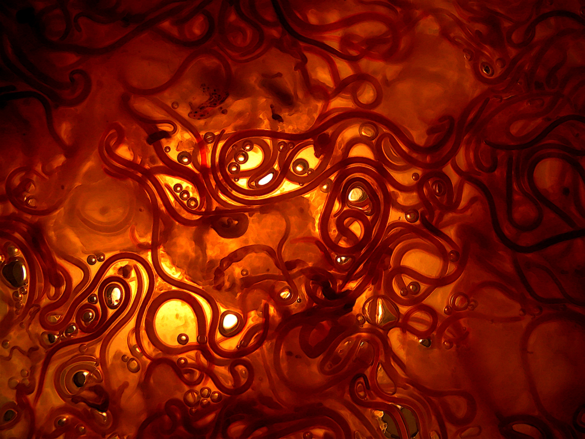 Nemotods from codfish filets, transformed in fish market.